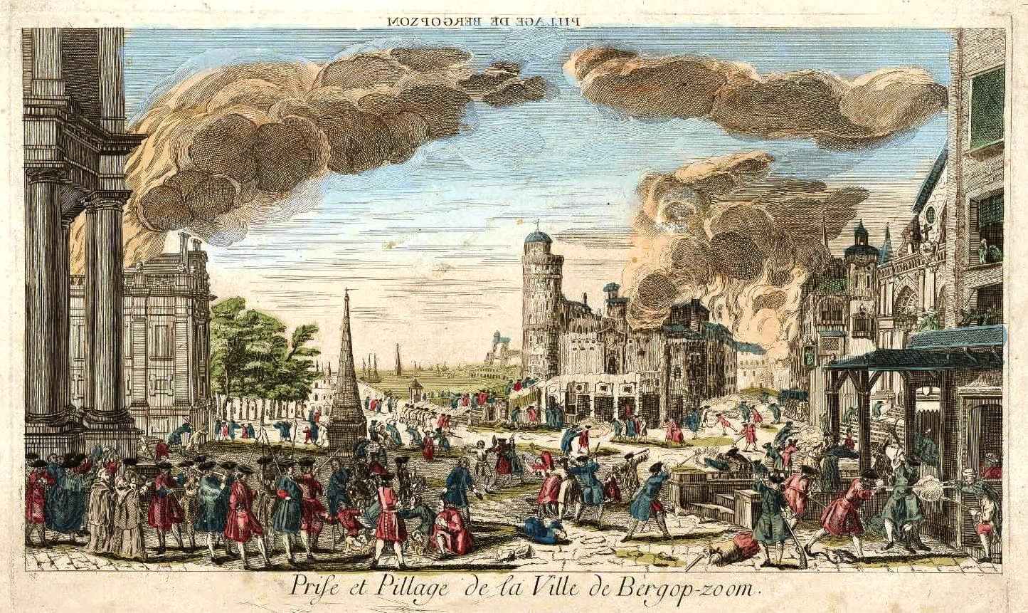 Taking and looting of the fortress of Bergen-op-Zoom in 1747 at the end of the War of Austrian Succession.